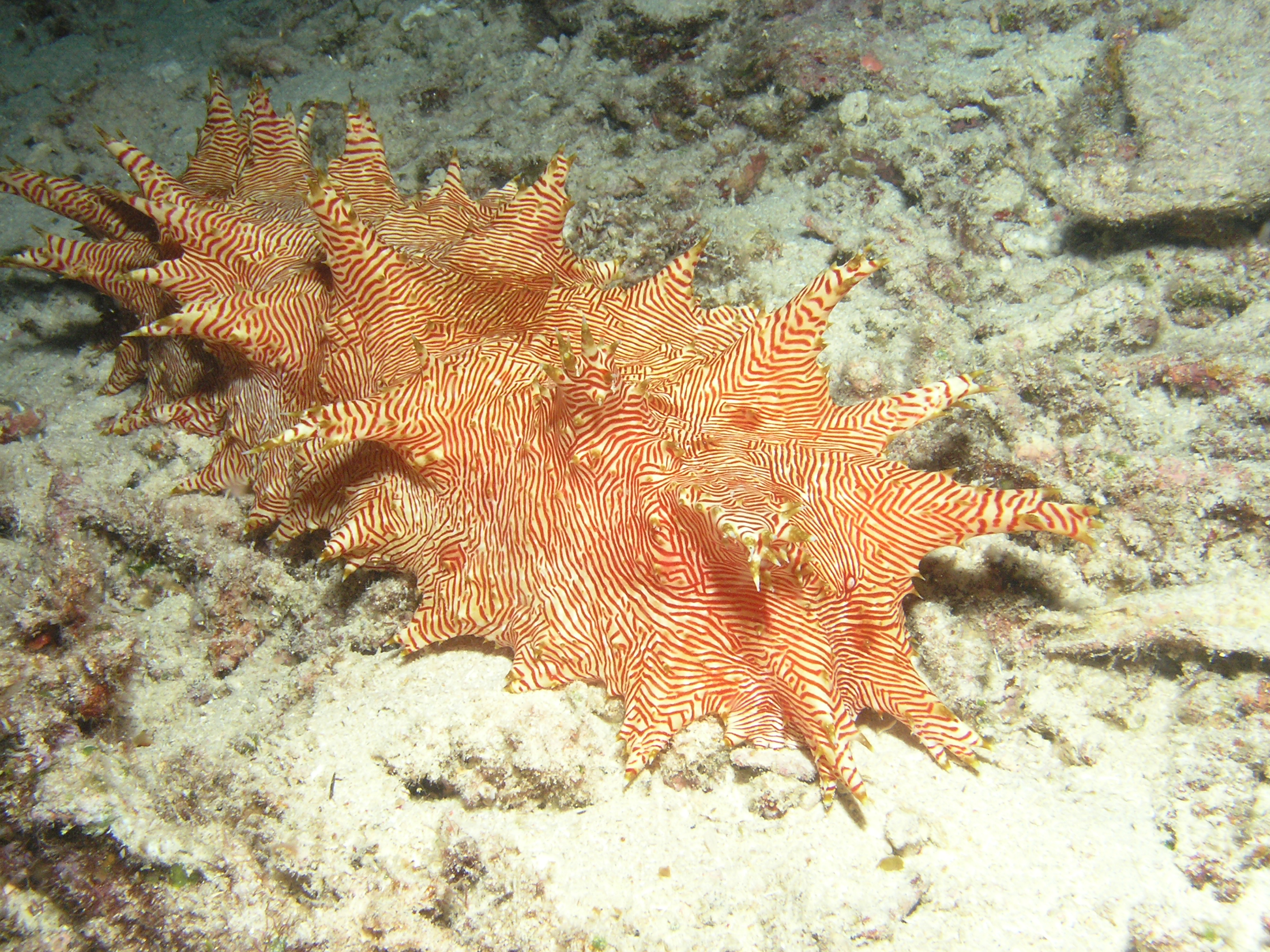 Red-lined Sea Cucumber (Thelenota rubralineata) at BunakenMarine Park, North Sulawesi